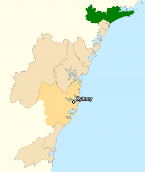 Incorporates or developed using Administrative Boundaries ©PSMA Australia Limited licensed by the Commonwealth of Australia under Creative Commons Attribution 4.0 International licence (CC BY 4.0). Derived from State and Territory Boundaries from the Australian Bureau of Statistics under Creative Commons Attribution 2.5 Australia license (CC BY 2.5 AU)